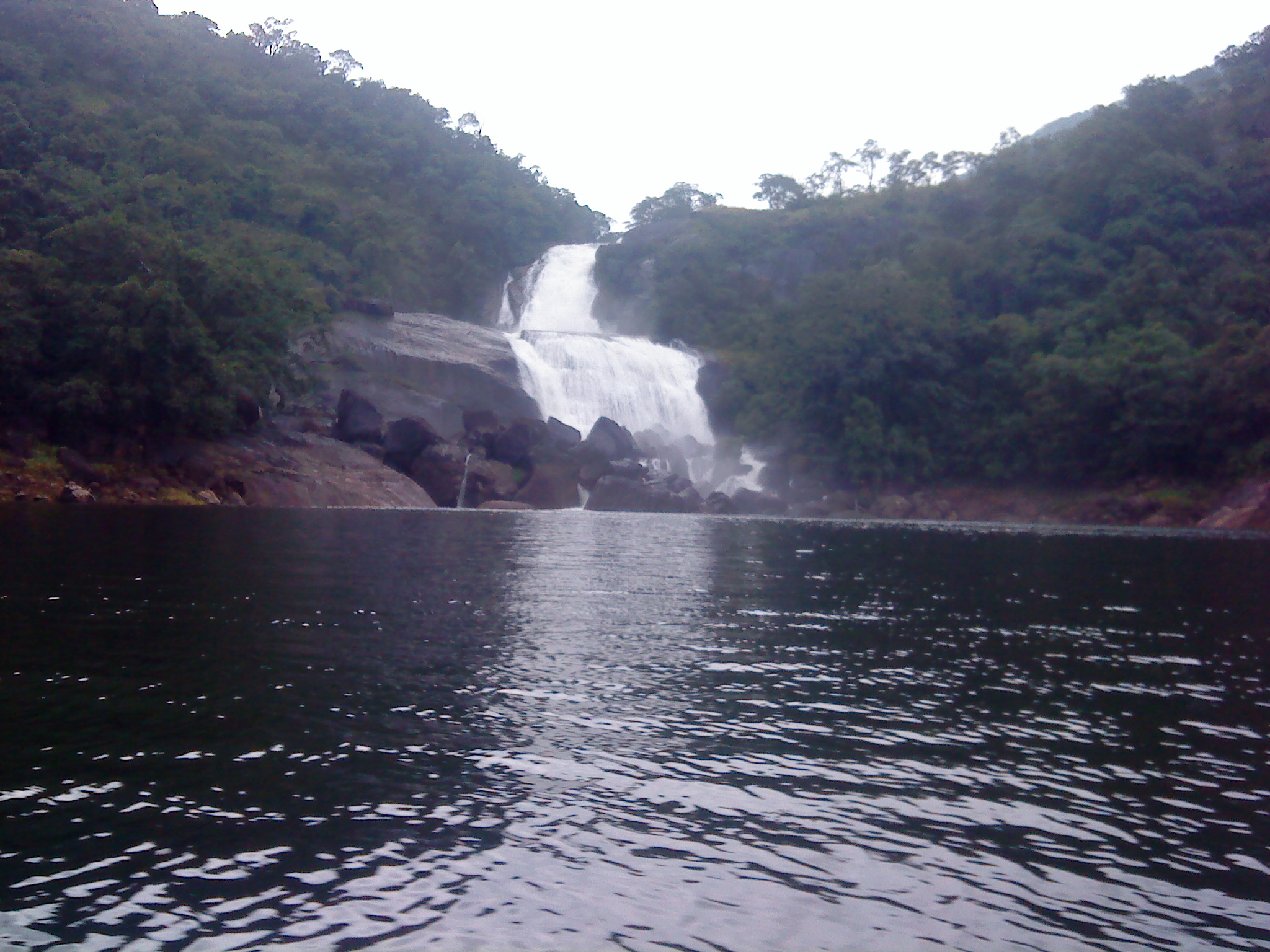 the banatheertham falls in podhigai hills, which is in tirunelveli District of tamilnadu.